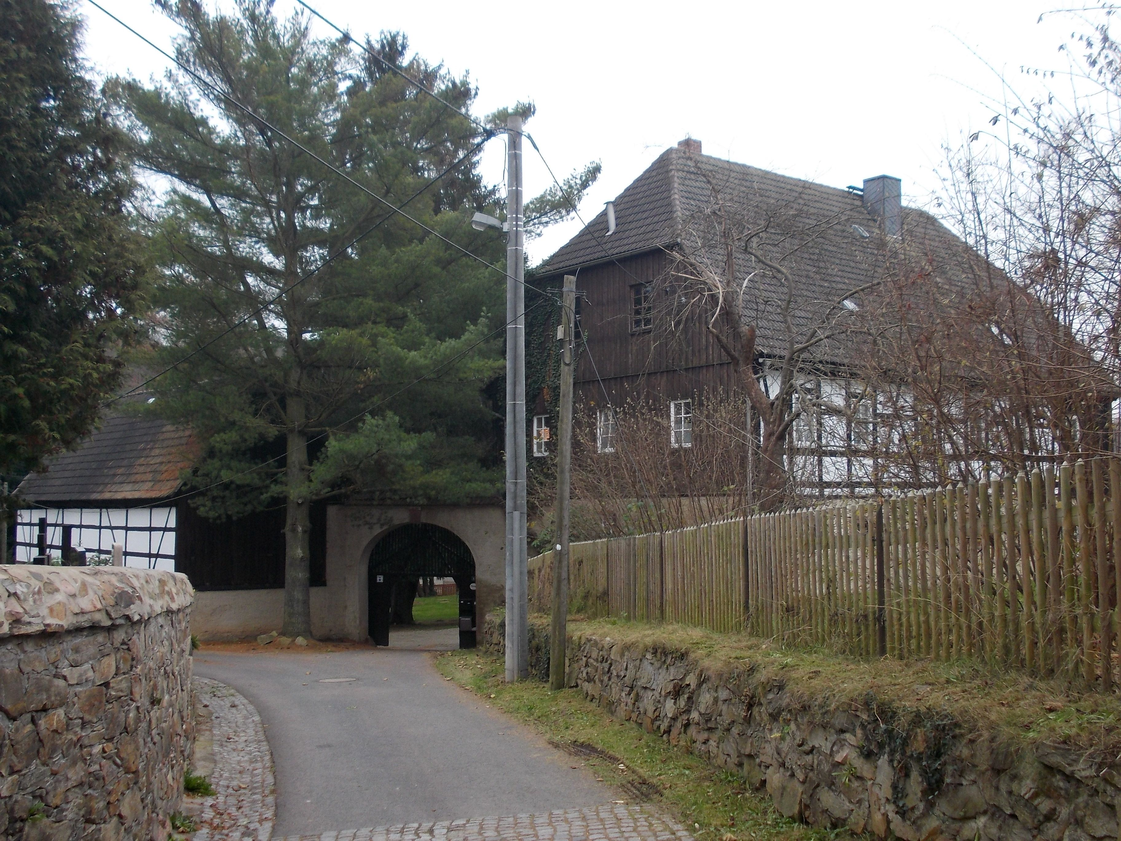 Rectory in Niederstriegis (Rosswein, Mittelsachsen district, Saxony)